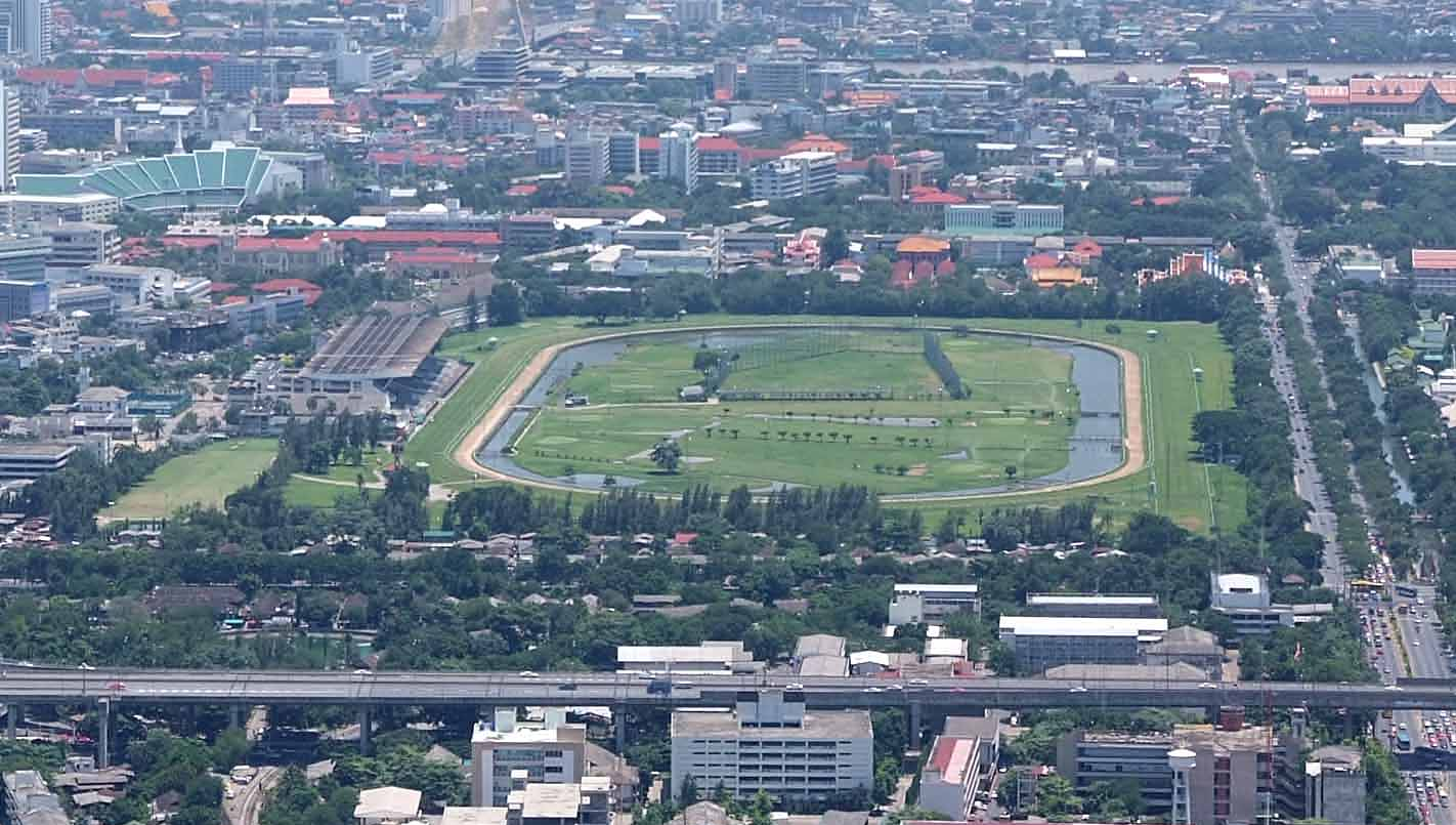 View from Baiyoke Tower II, showing the Royal Turf Club